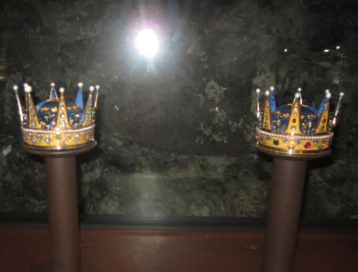 Coronets of Princesses of Sweden (left made for Princess Sophia Albertina in the early 1770s, and right for Princess Charlotte, Duchess of Sudermania in 1778) as shown to public on National DayPlace: Royal Treasury, Stockholm Palace, Sweden